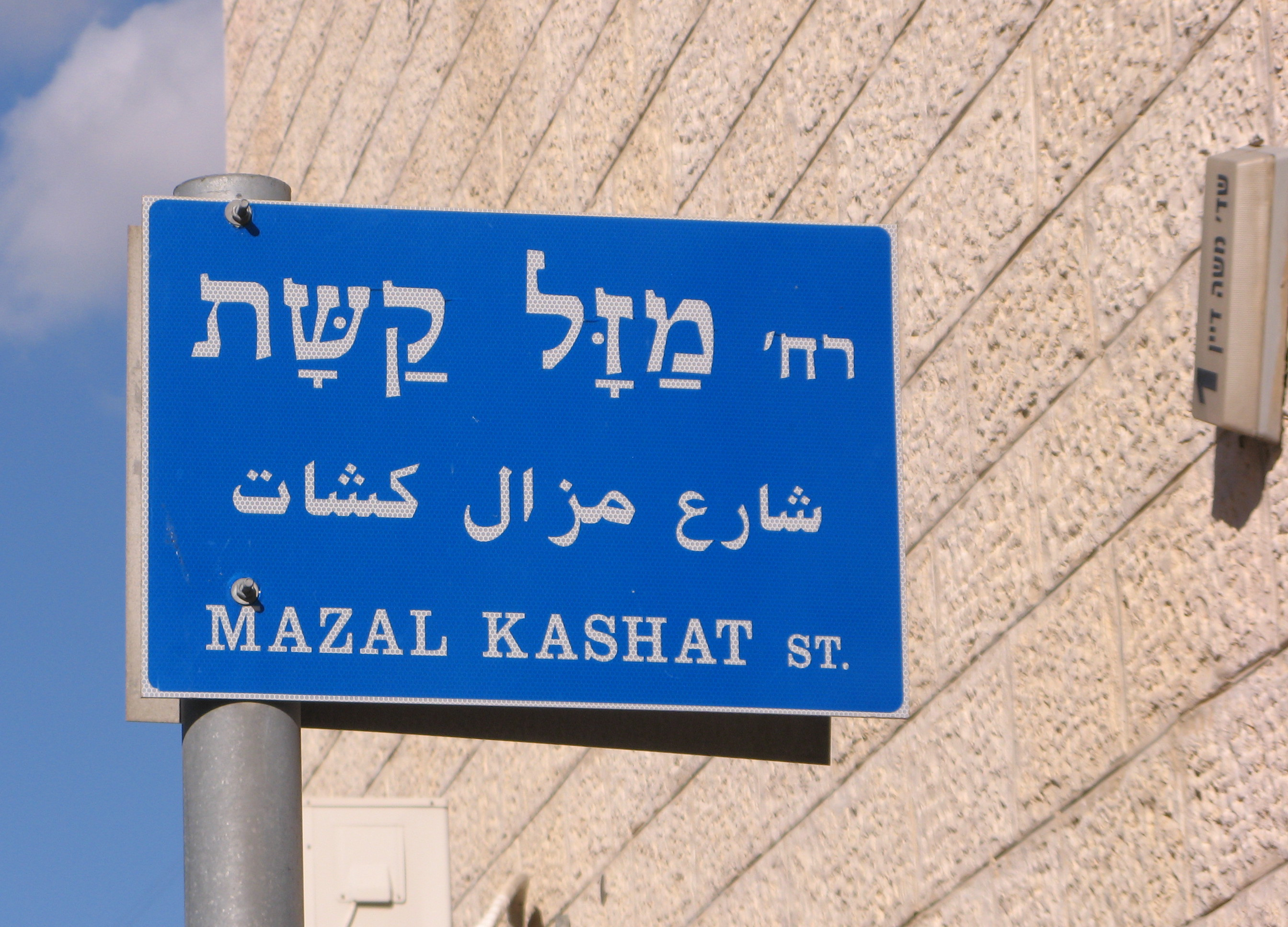 Street sign of Mazal Kashat (Sagittarius constellation) road and sign "1 sderot moshe dayan" in North Pisgat Ze'ev near Neve Yaakov Jerusalem